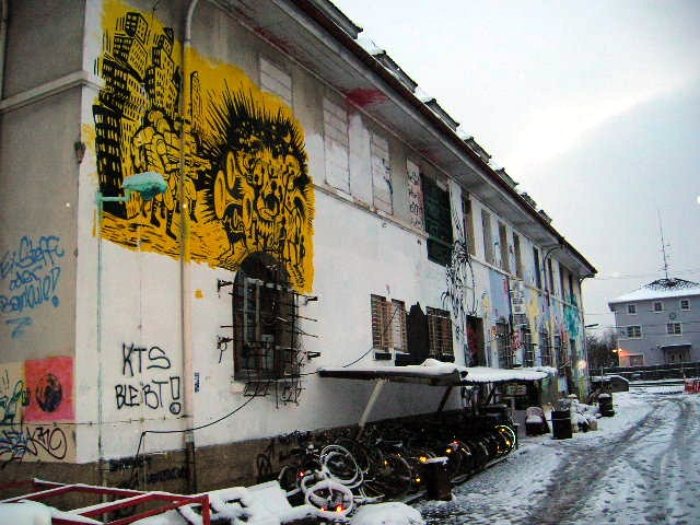 The photo shows a German squat in Karlsruhe called "Ex-Steffi" (de). The picture was taken at 29.12.2005. The building that was squatted since 1990 and has been demolished in April, 2006 by the owner (the city Karlsruhe).